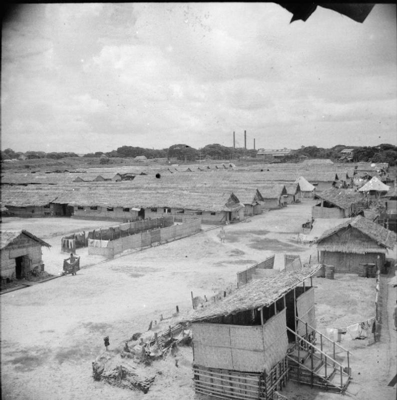 The British Reoccupation of Burma View of Ahlone Camp, one of three large transit camps used to hold Japanese prisoners of war during Operation Nipoff, the scheme devised to repatriate 35,000 prisoners to Japan. The operation was directed by Headquarters Burma Command but administered by the Japanese themselves through their former Burma Area Army Headquarters staff.